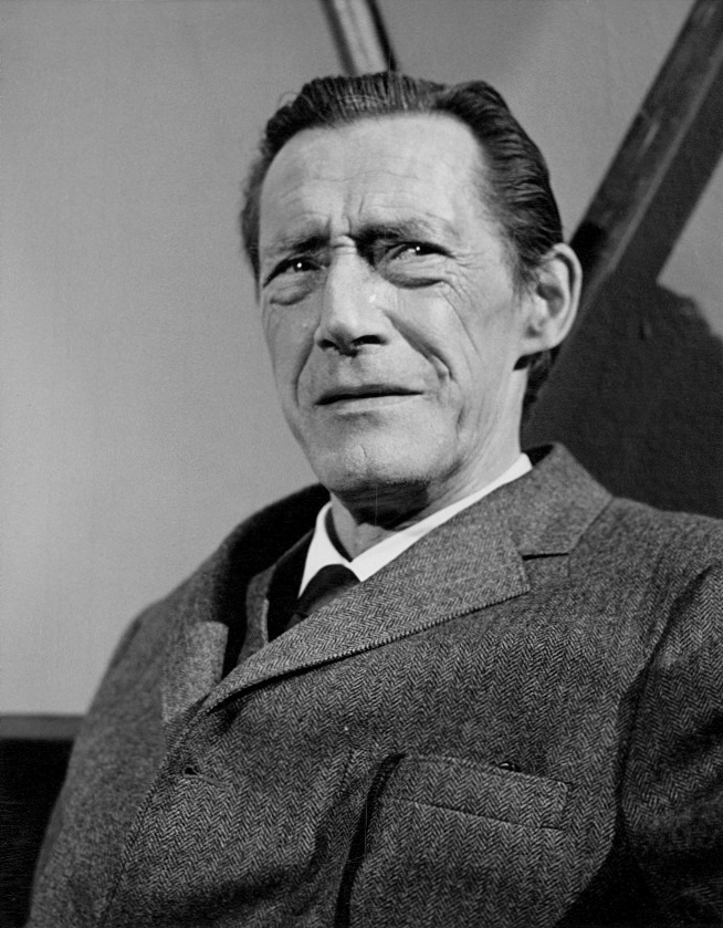 John Carradine in a publicity photograph for the televsion series The Green Hornet - Episode 23, Alias The Scarf (1967)